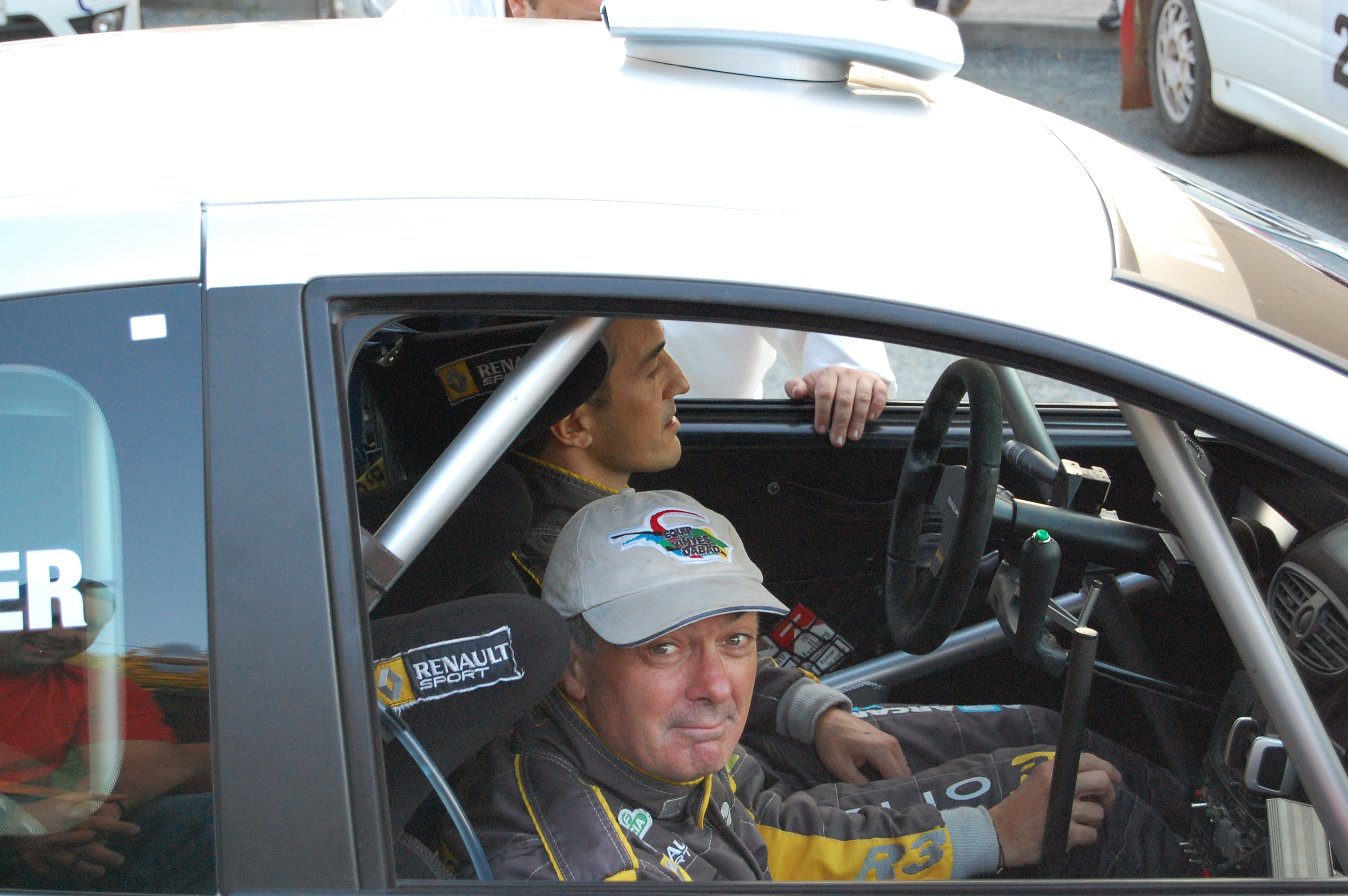 Joan Vinyes, spanish rallye driver. 2008.